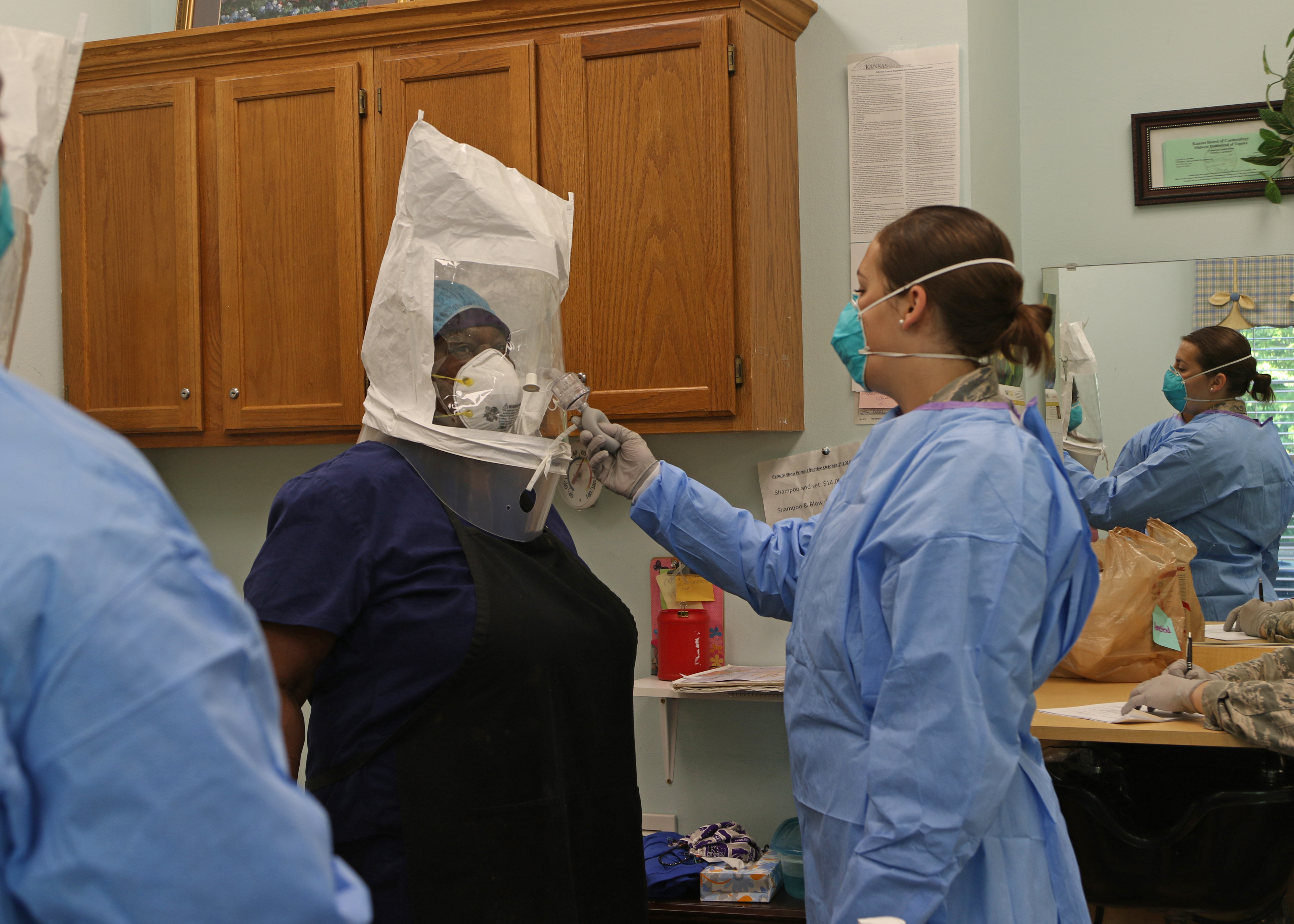 Airman 1st Class Skylar Medrano, 190th Air Refueling Wing, Kansas Air National Guard medical technician, sprays a non-toxic test solution into the hood of Elizabeth Thomas, head cook for Homestead of Topeka, to test the N95 protective masks’ ability to filter airborne particles during a fit test demonstration at Homestead of Topeka, in Topeka, Kansas, May 6, 2020. The N95 masks are used by the Homestead of Topeka staff to minimize spread of diseases, such as COVID-19 and will strengthen their defense response while continuing to care for all residents. (U.S. Army photo by Staff Sgt. Dakota Helvie, 105th Mobile Public Affairs Detachment)